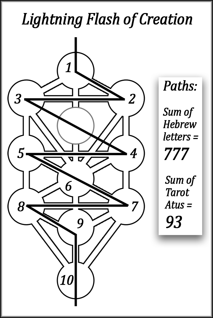 Lightning flash of creation